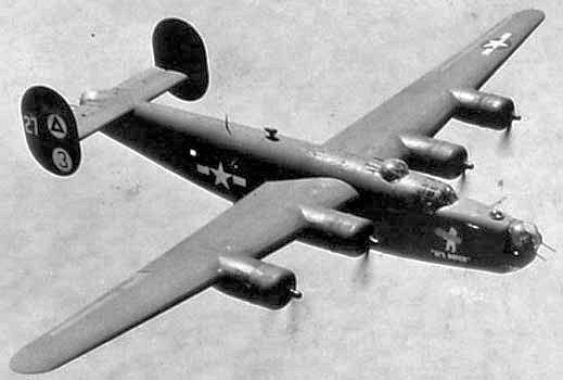 Consolidated B-24J-15-CF Liberator 42-64363 449BG 718BS